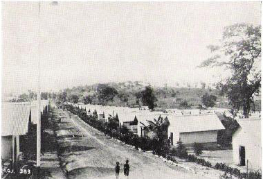 Houses constructed for Congolese workers, circa 1943